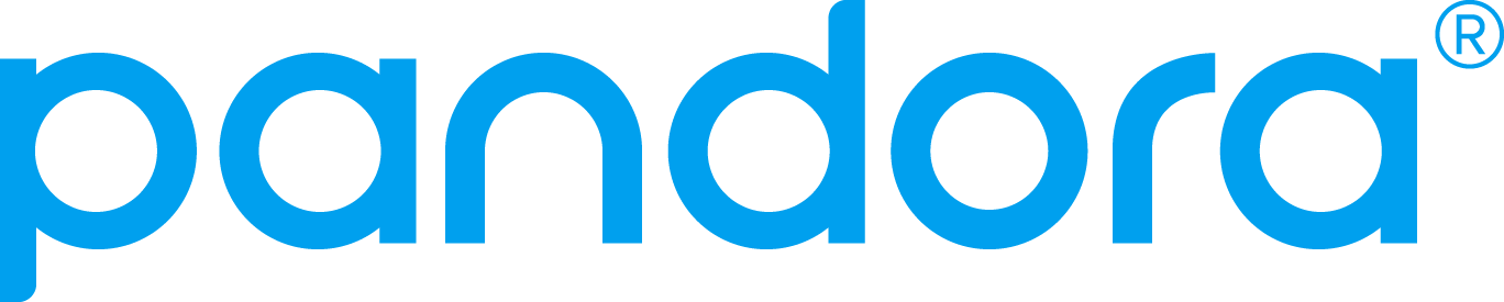 2016 Wordmark of Pandora Radio